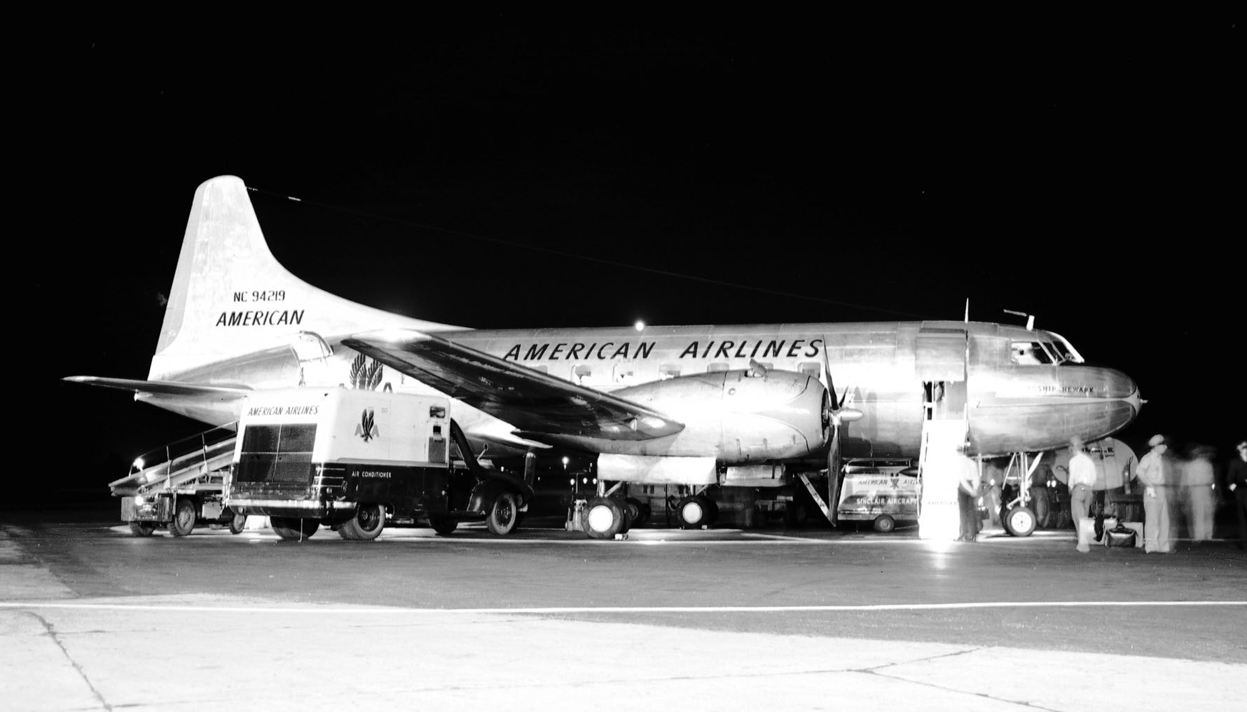 Night photo of N94219 at Nashville, TN, in May 1948.